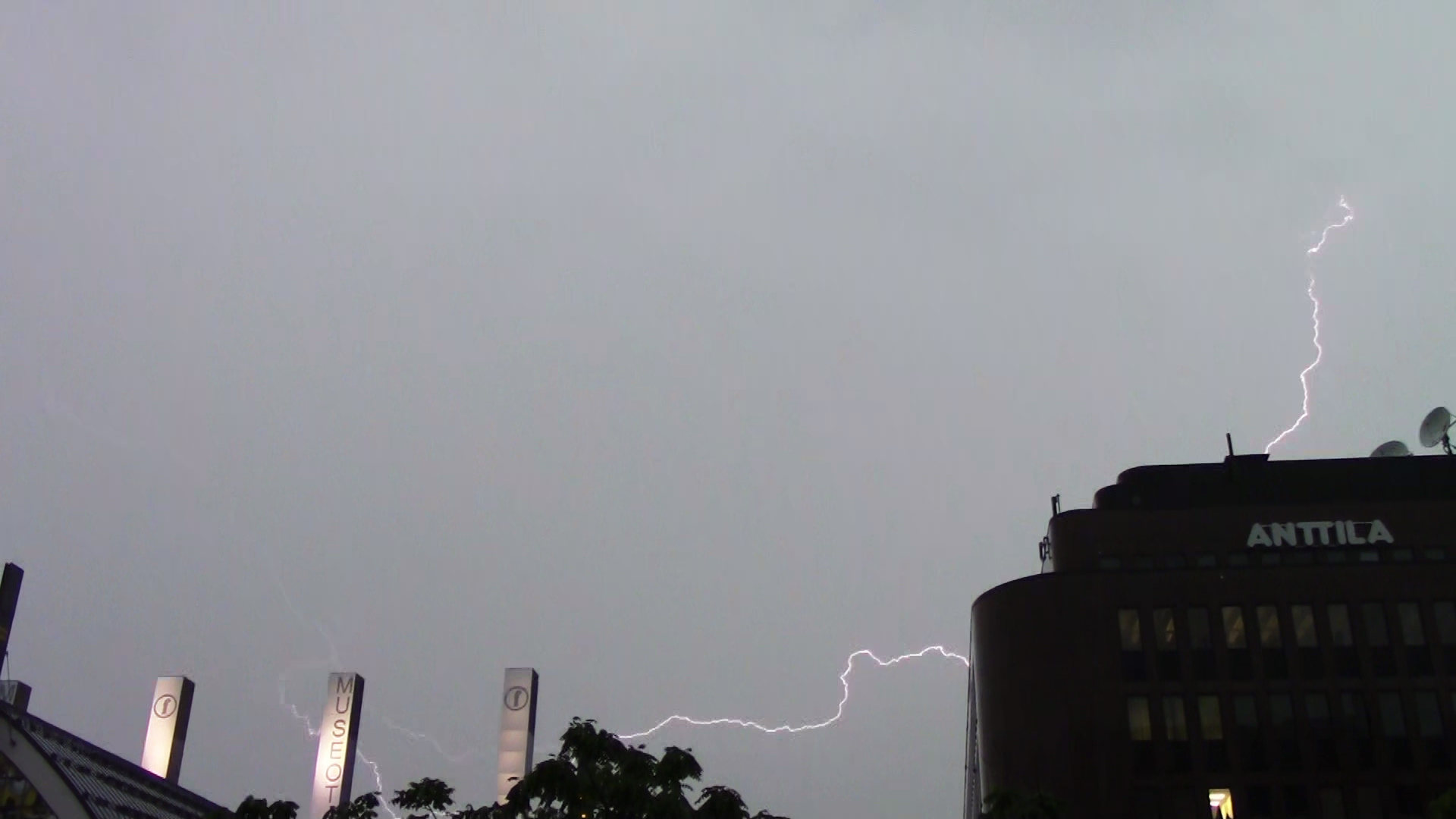 Lightnings of Kiira storm as seen from the entrance of Kamppi shopping center in Helsinki, Finland.